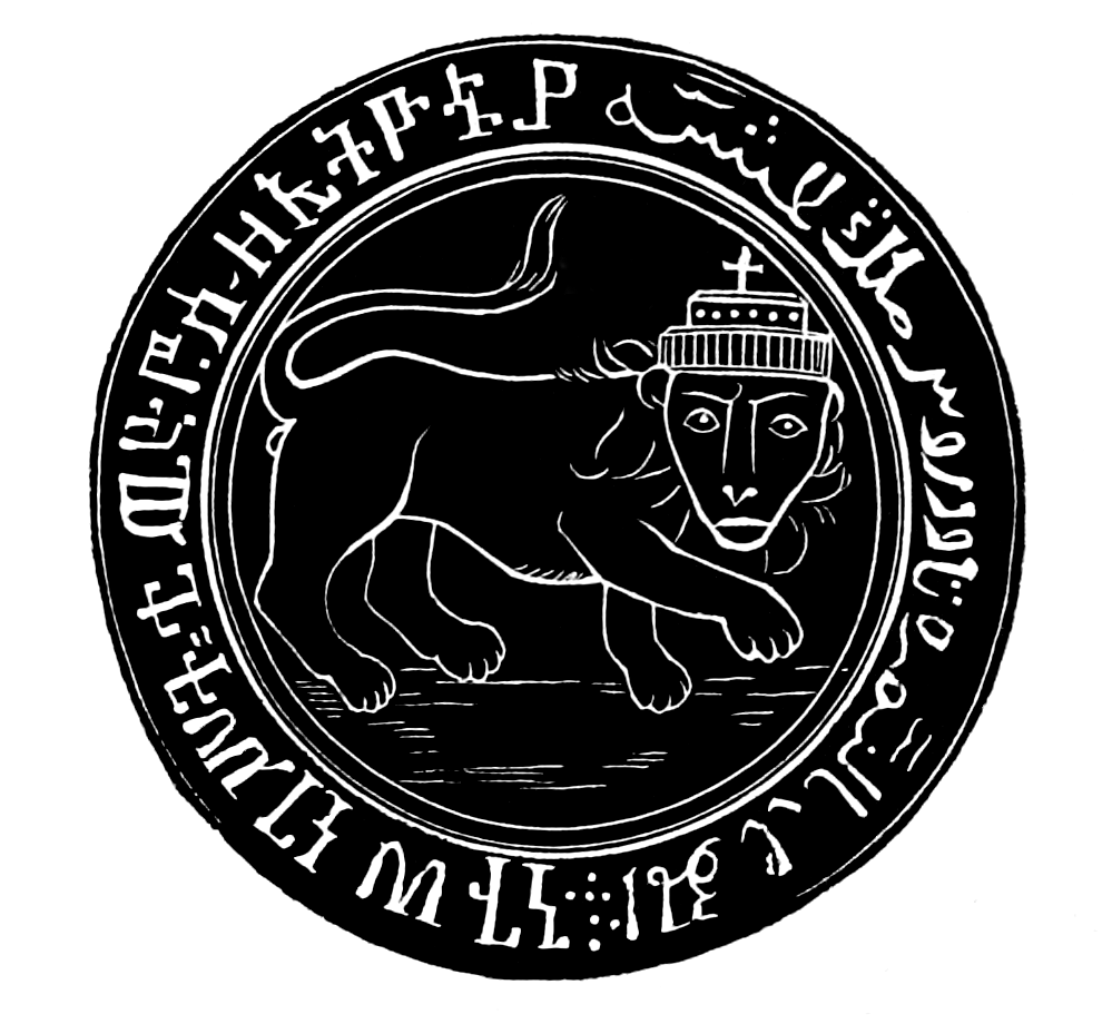 Seal of "The King of Kings, Theodore of Ethiopia"